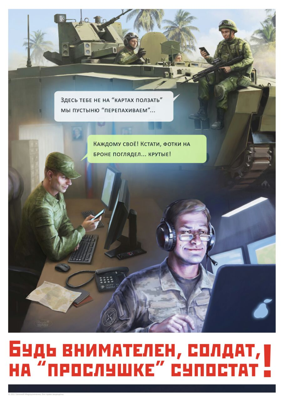 Poster for information security norms by the Ministry of Defense of the Russian Federation